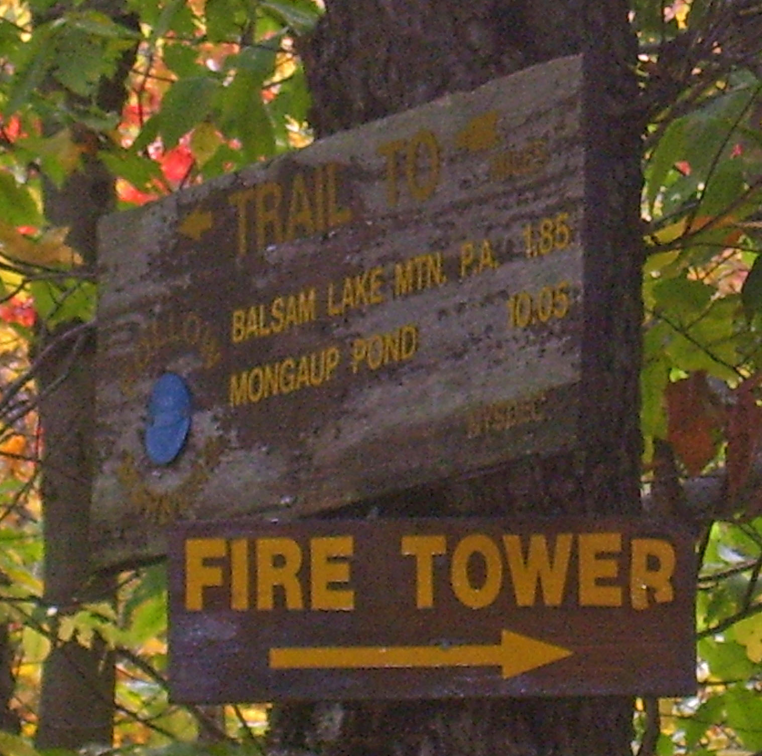 Sign at junction of Balsam Lake Mountain and Dry Brook Ridge trails on Balsam Lake Mountain, NY, USA, with sign pointing to fire tower on mountain's summit